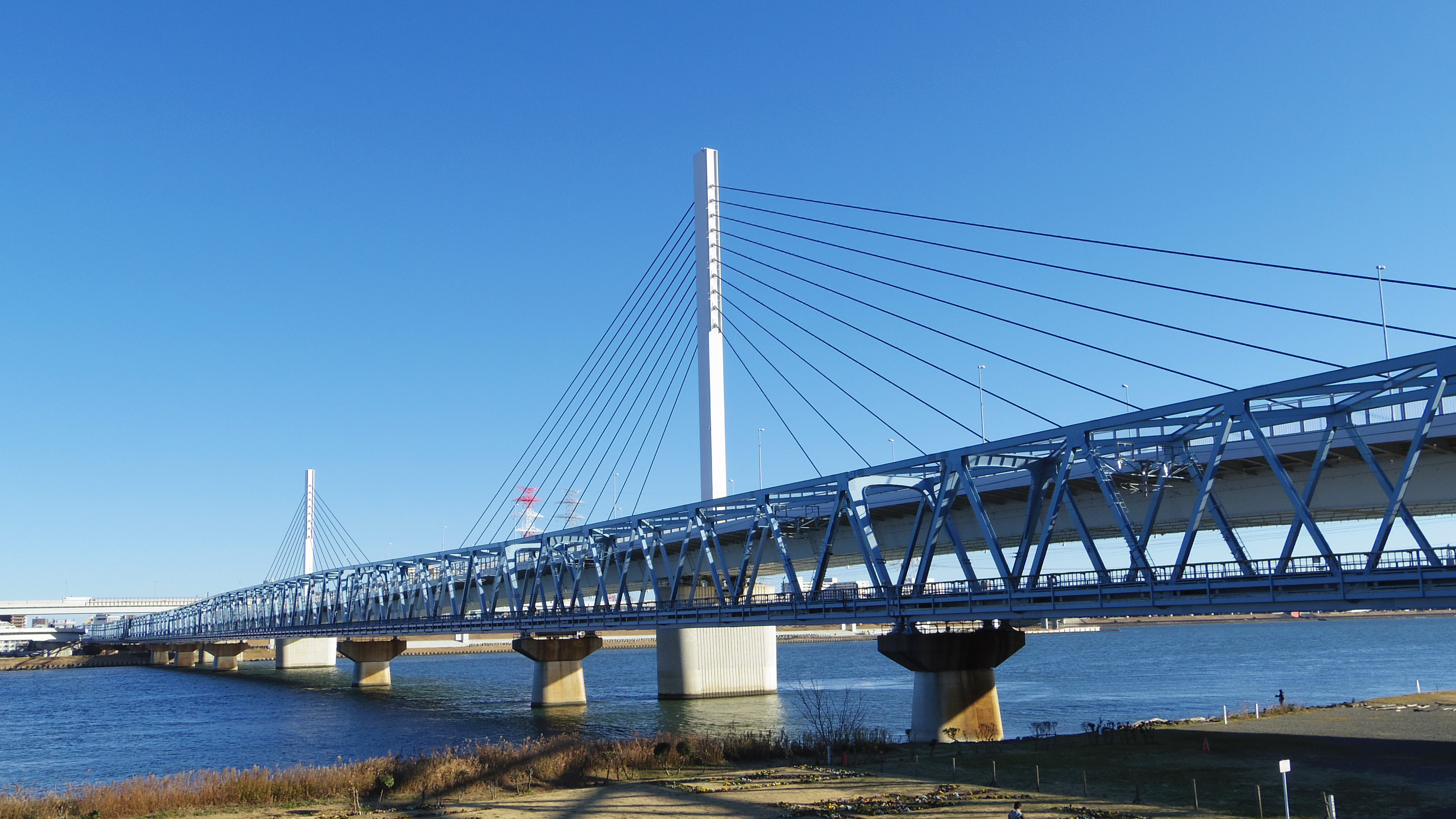 The Arakawa-Nakagawa Bridge on the Tokyo Metro Tōzai Line